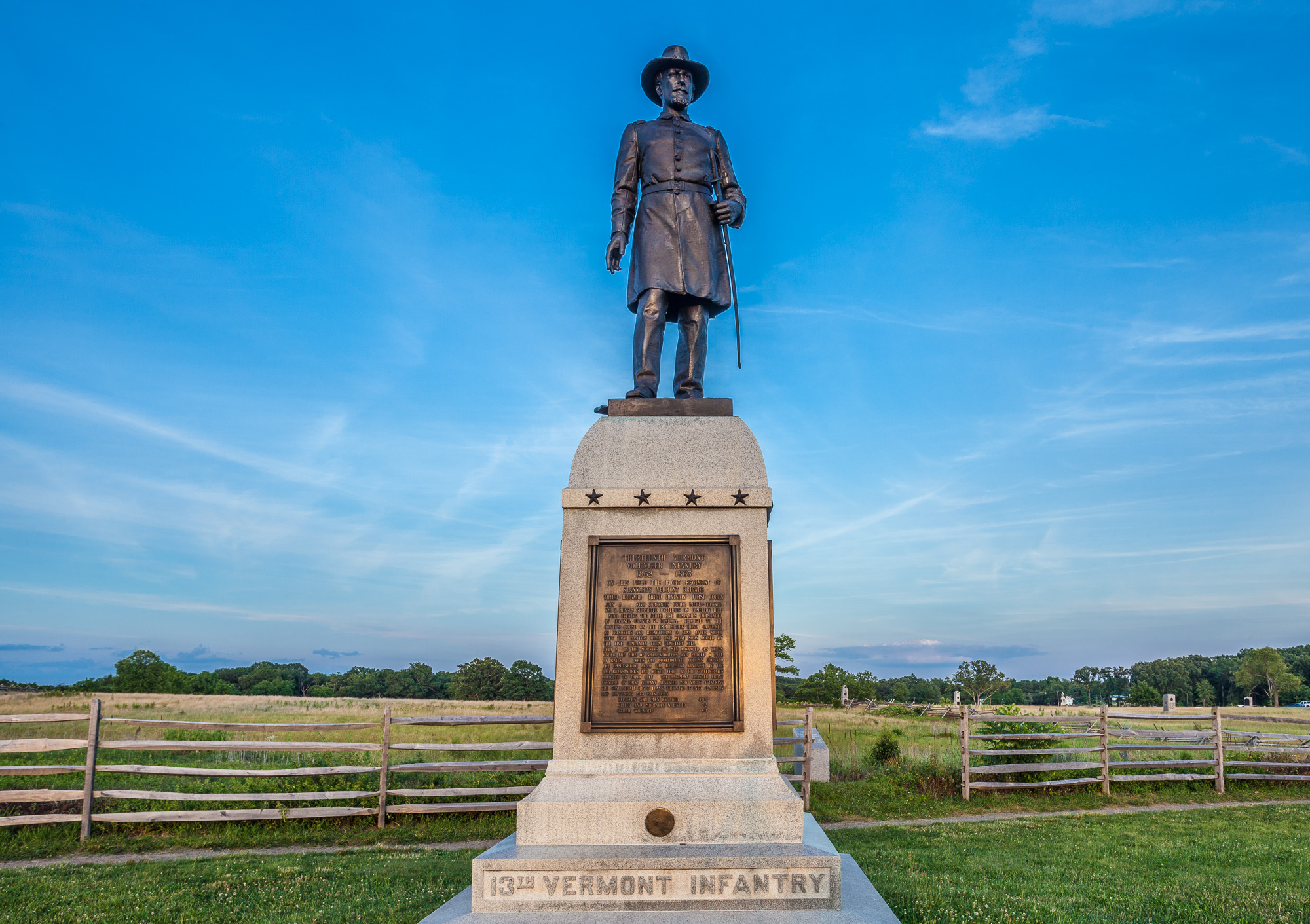 13th Vermont Volunteer Infantry 1862-1863. On this field the right regiment of Stannard's Vermont brigade third brigade third division first corps. Gettysburg National Military Park, Pennsylvania.